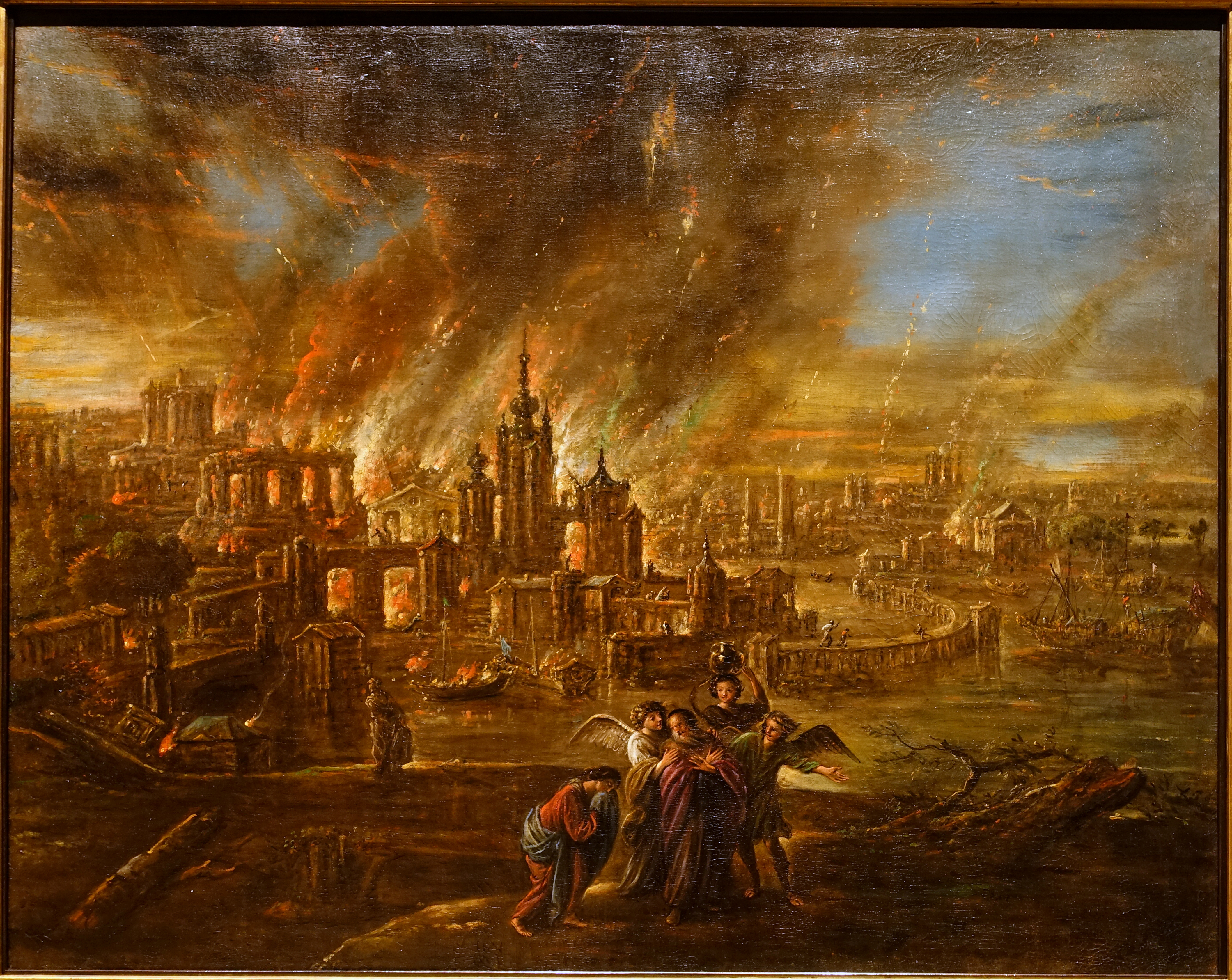 Exhibit in the Hessisches Landesmuseum Darmstadt - Darmstadt, Germany.